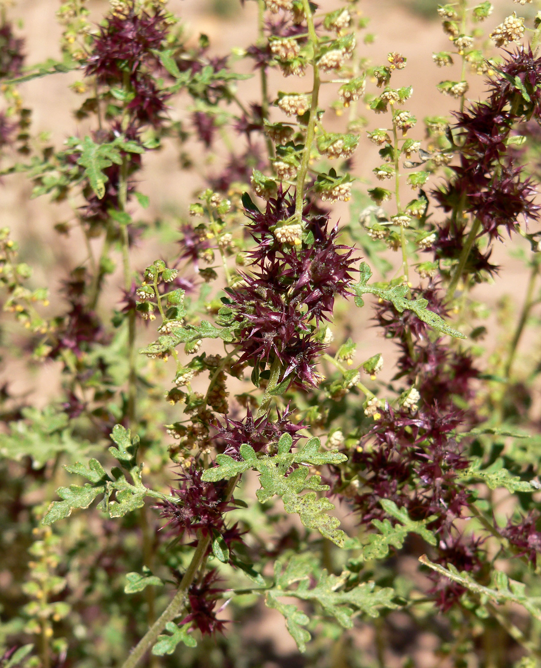 Ambrosia dumosa with purple fruits in Pine Creek Canyon, Red Rock Canyon, southern Nevada